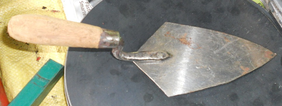 Trowell